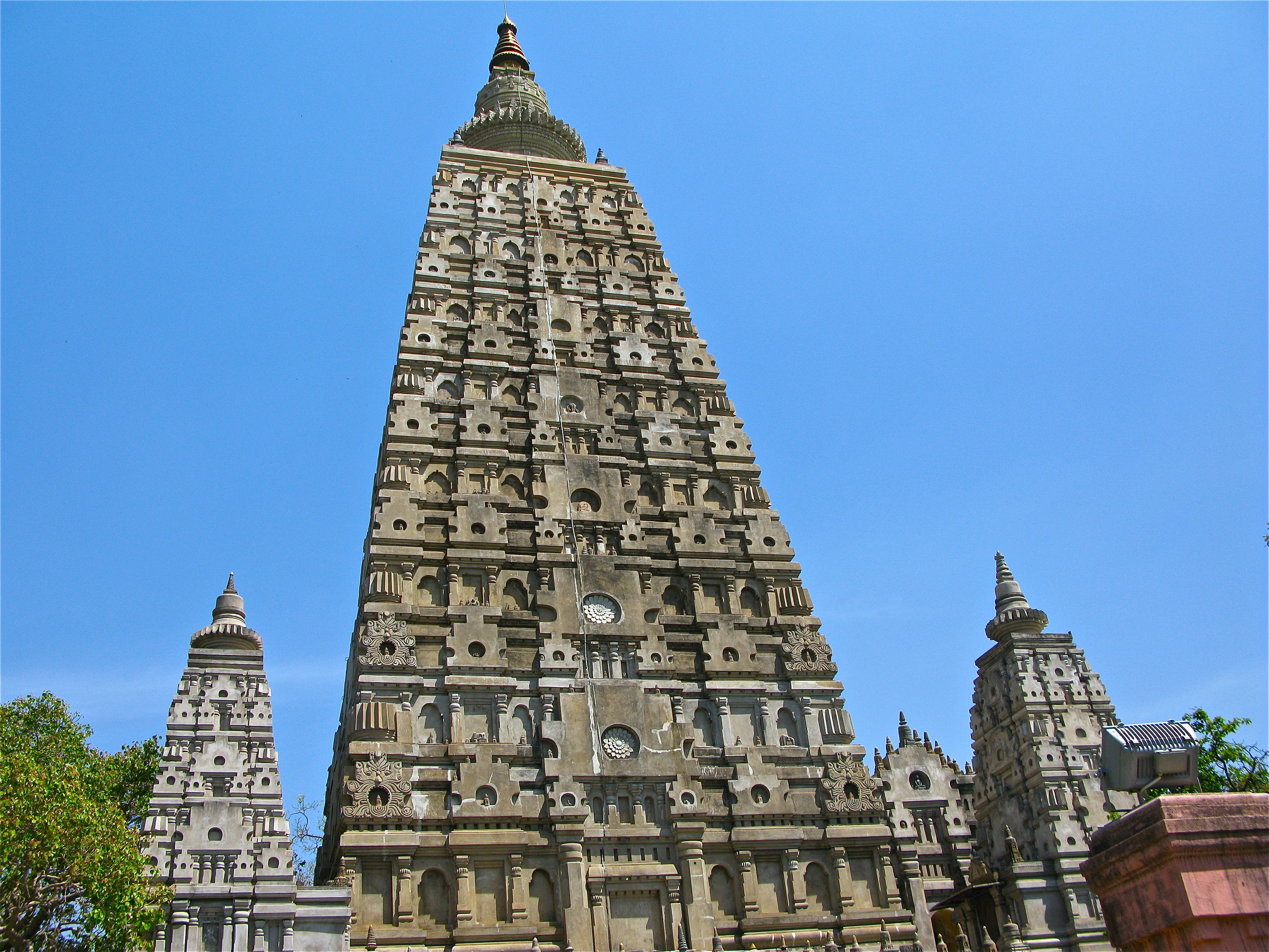 Mahabodhi Temple in Bodh Gaya.